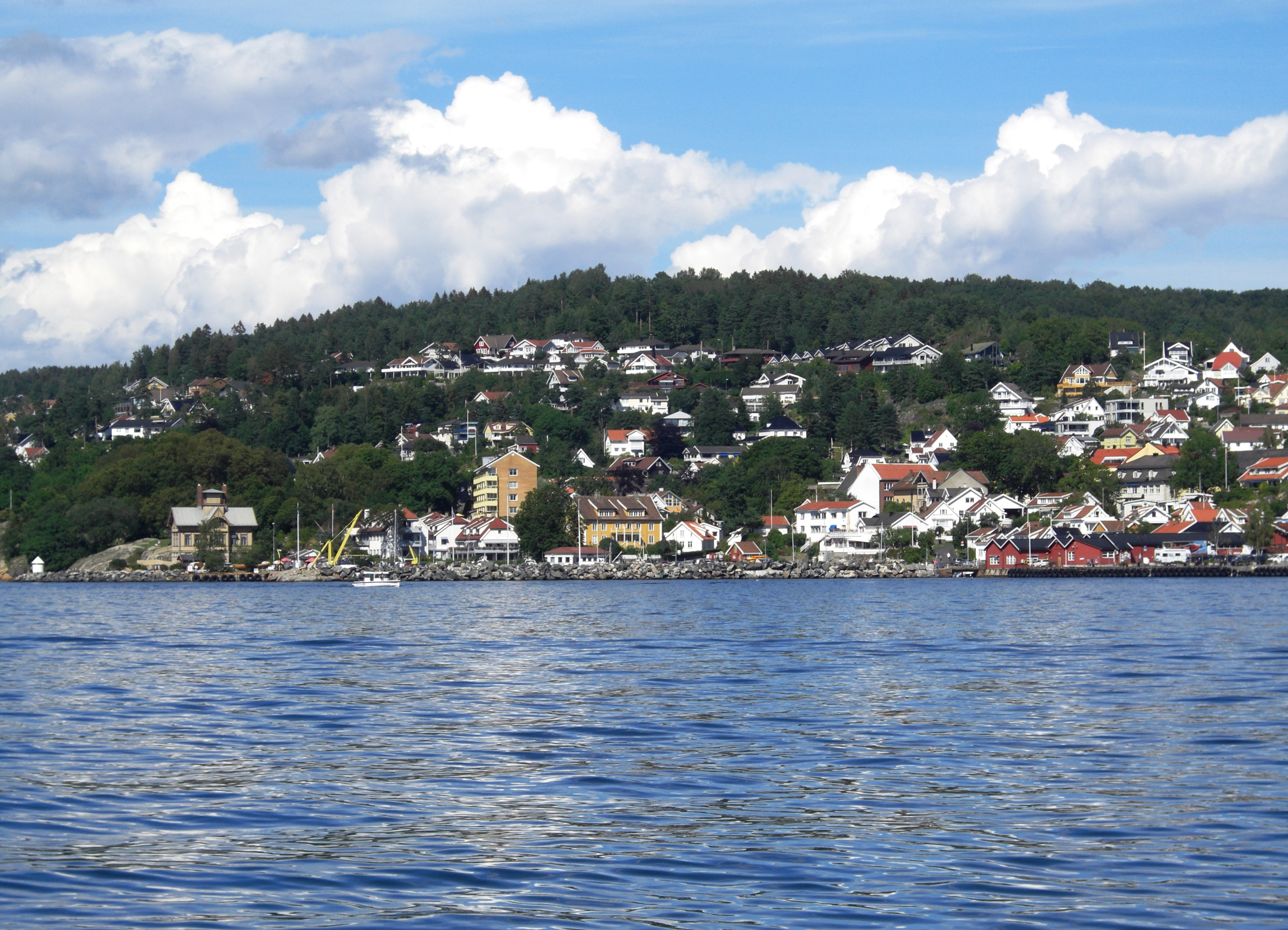 Drøbak seaside